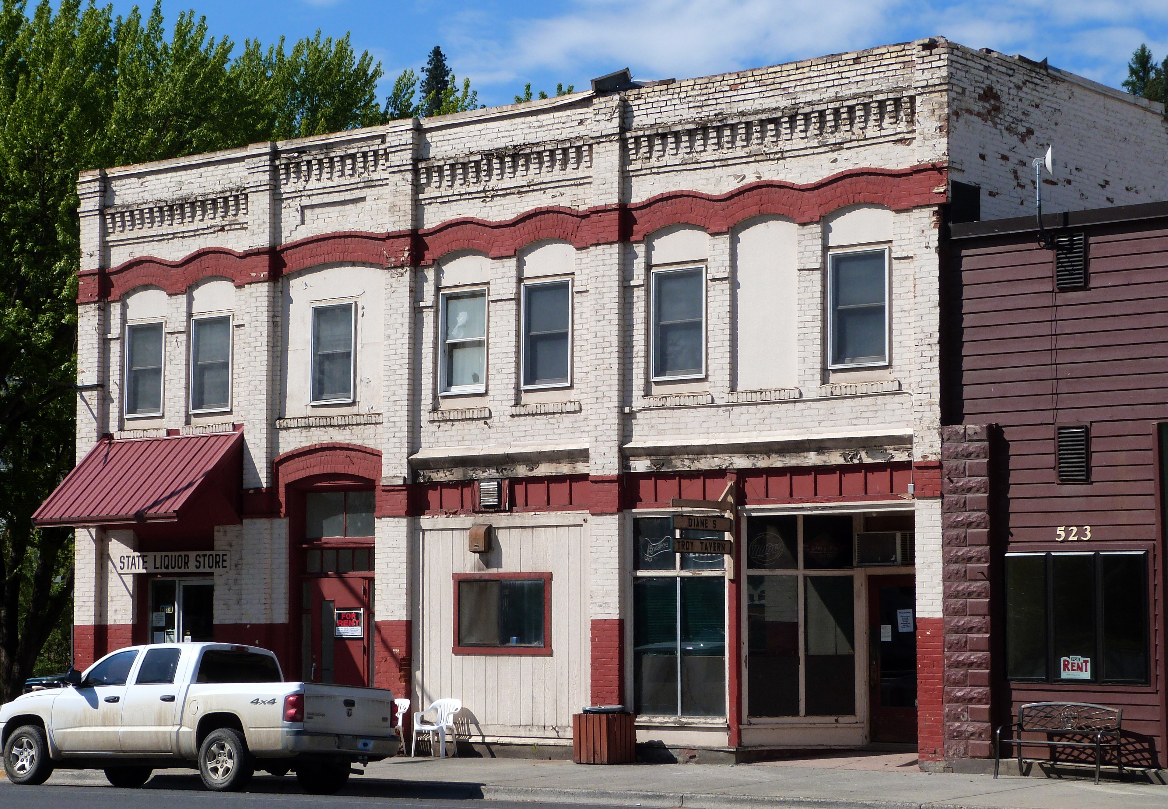 The historic Hotel Rietmann (built 1898), located at 525–529 South Main Street in Troy, Idaho, United States, is listed on the US National Register of Historic Places. It is additionally listed as a contributing resource in the Troy Downtown Historic District. The historic district is also listed on the National Register.